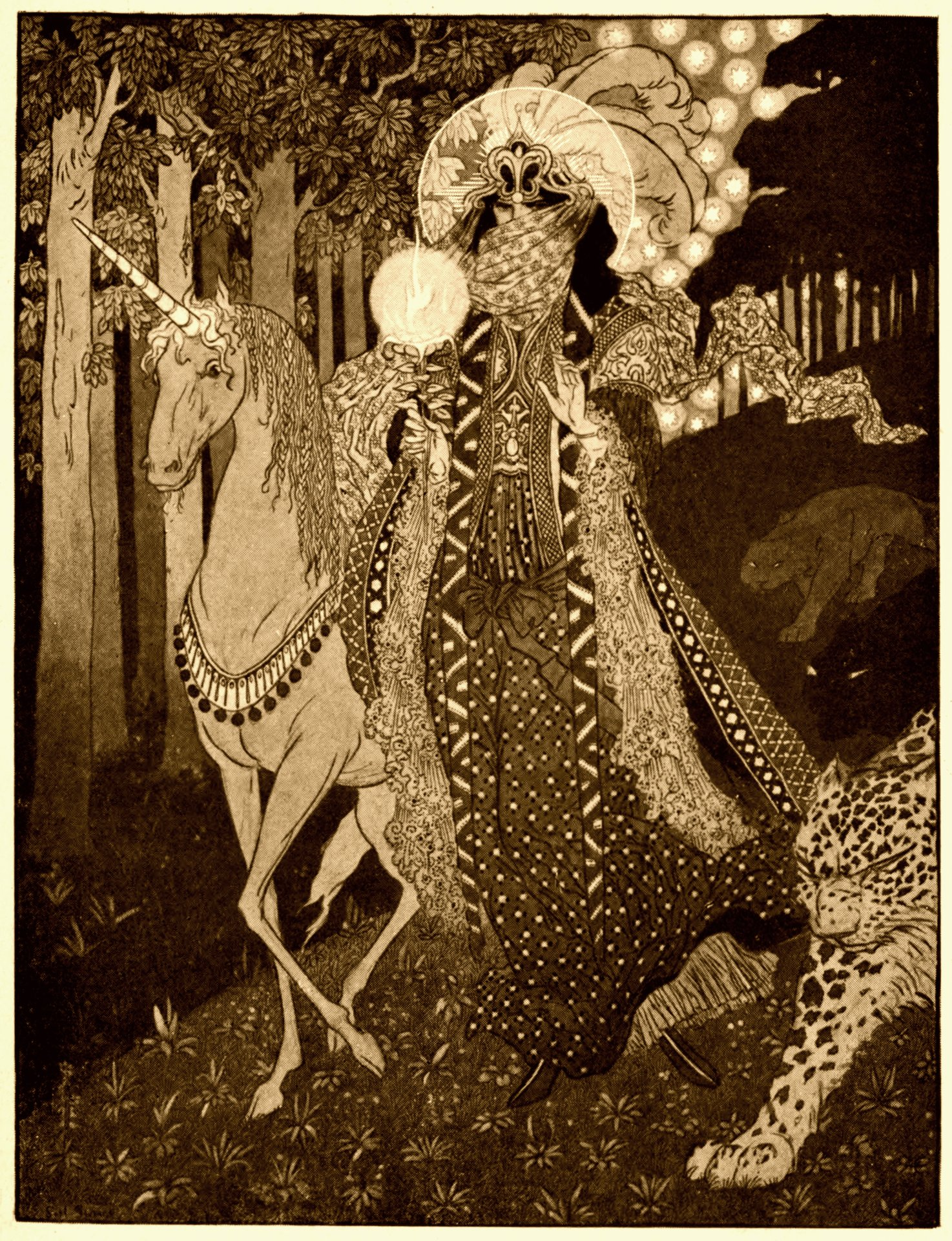 Illustration for Lord Dunsany's "A Dreamer's Tale".